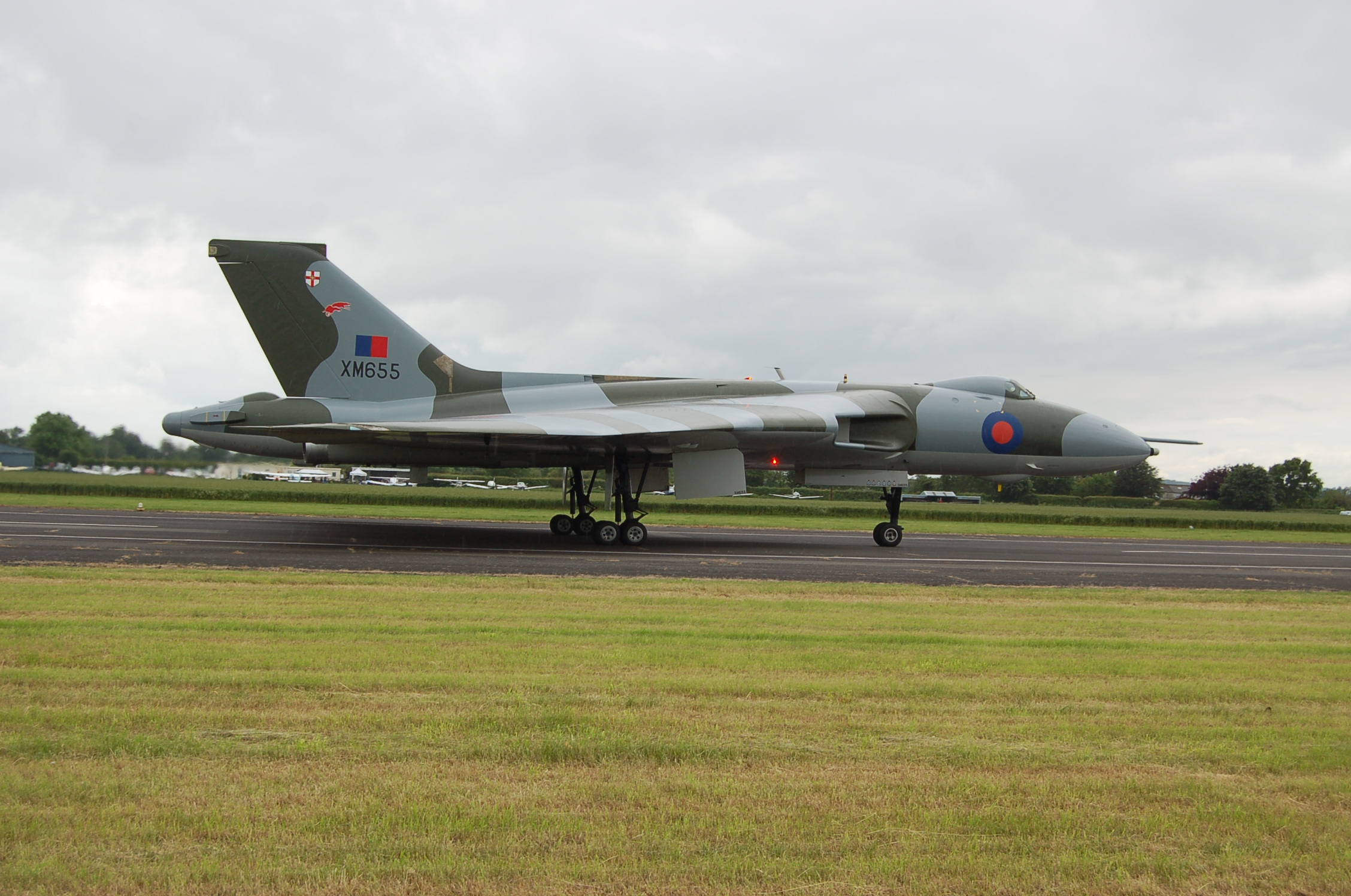 Avro Vulcan B-2A on a slow taxi at Wellesbourne,16/06/12.